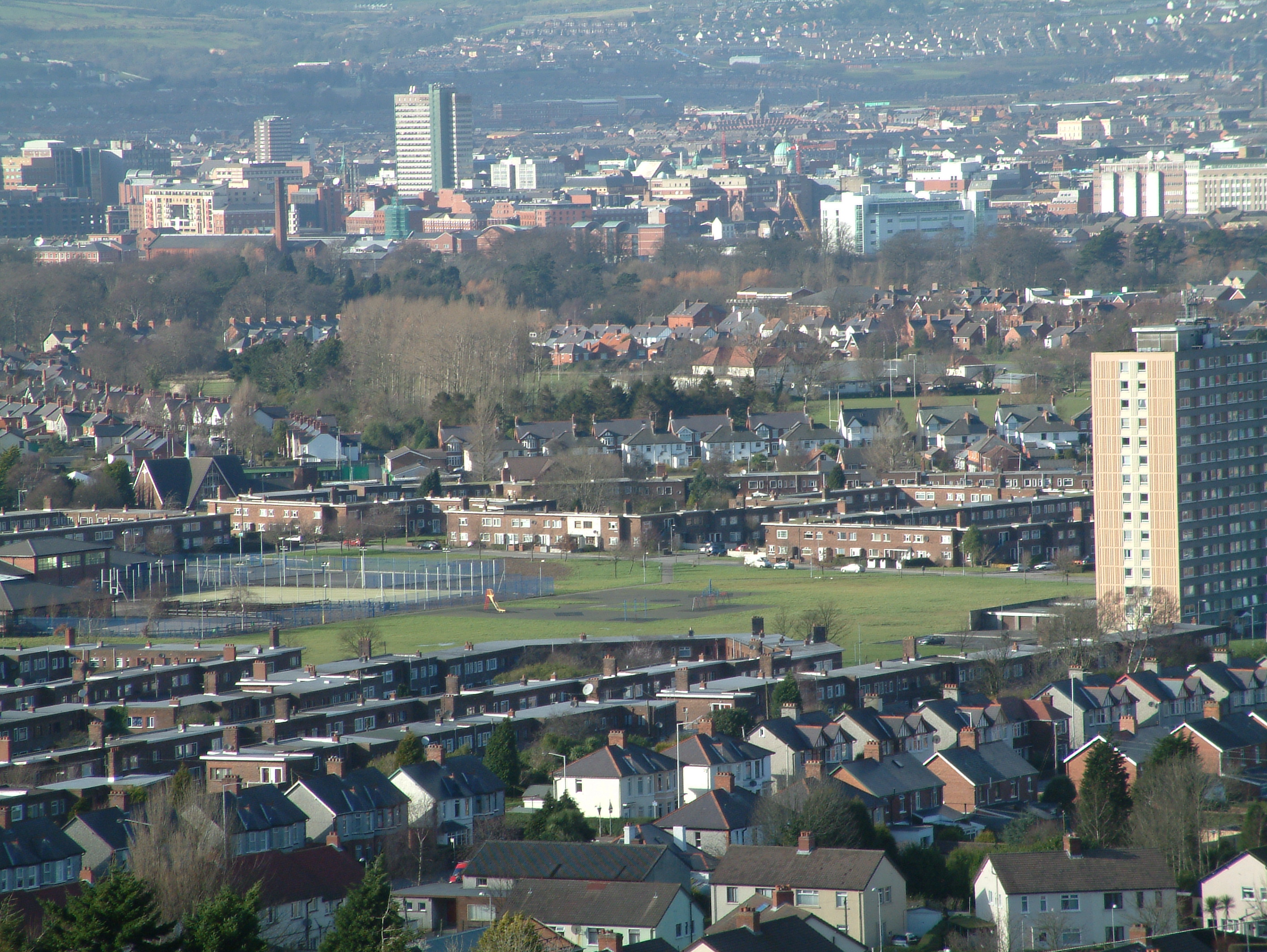 Photograph of the Cregagh Estate in East Belfast, taken from the Rocky Road in the Castlereagh Hills